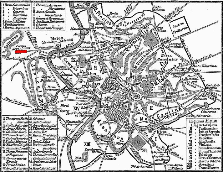 Circus Neronianus in red on an old map of Roma